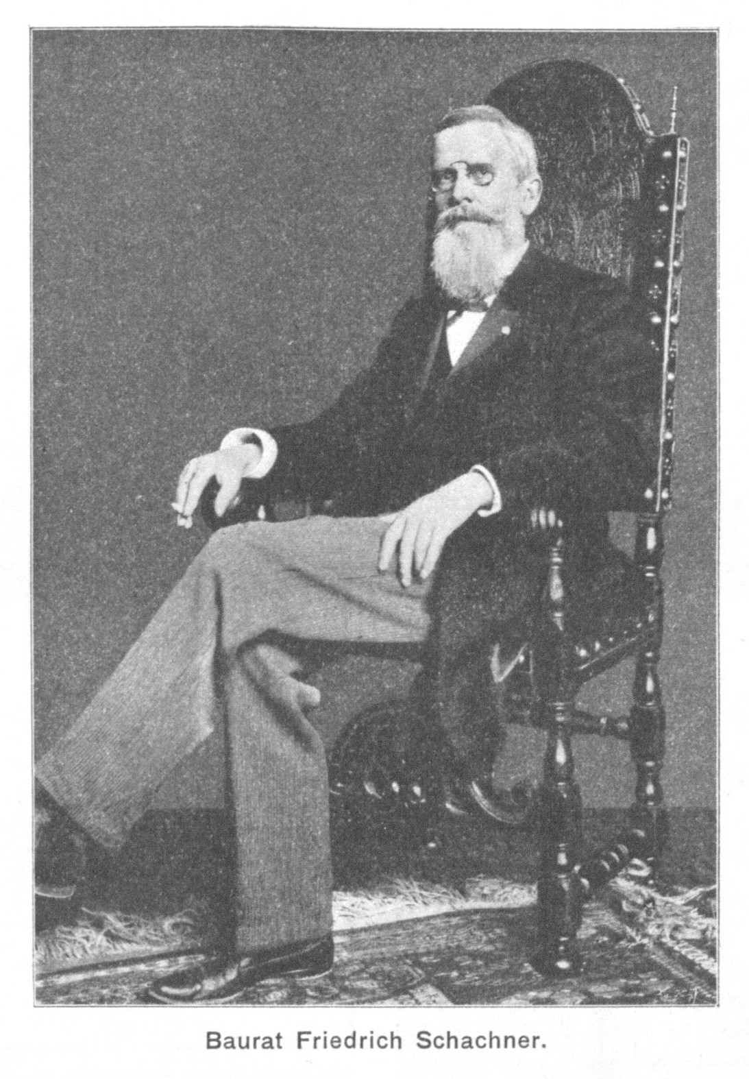 Portrait of Friedrich Schachner (1841-1907), Austrian architect.